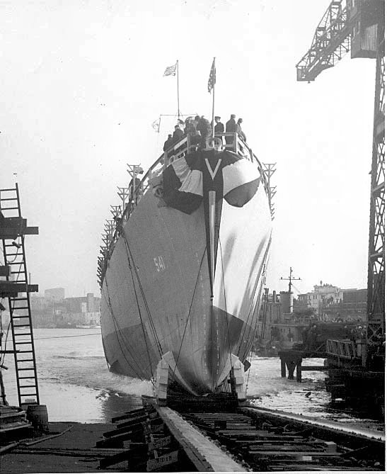 United States Navy destroyer escort USS Sheehan (DE-541) is launched at the Boston Navy Yard, Boston, Massachusetts